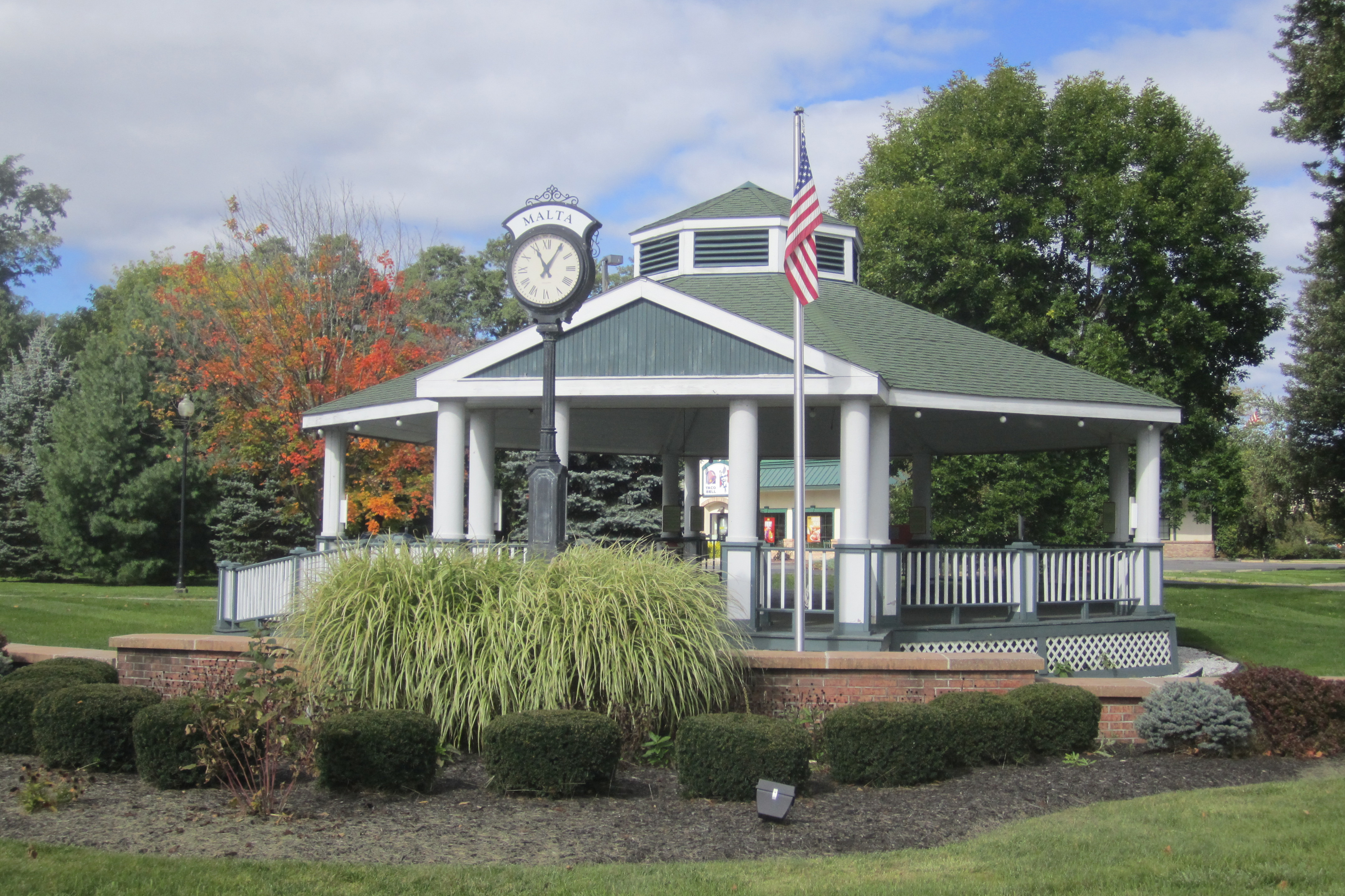 Gazebo in the pocket park at the corner of US Route 9 and NYS Route 67, "Malta Corners".